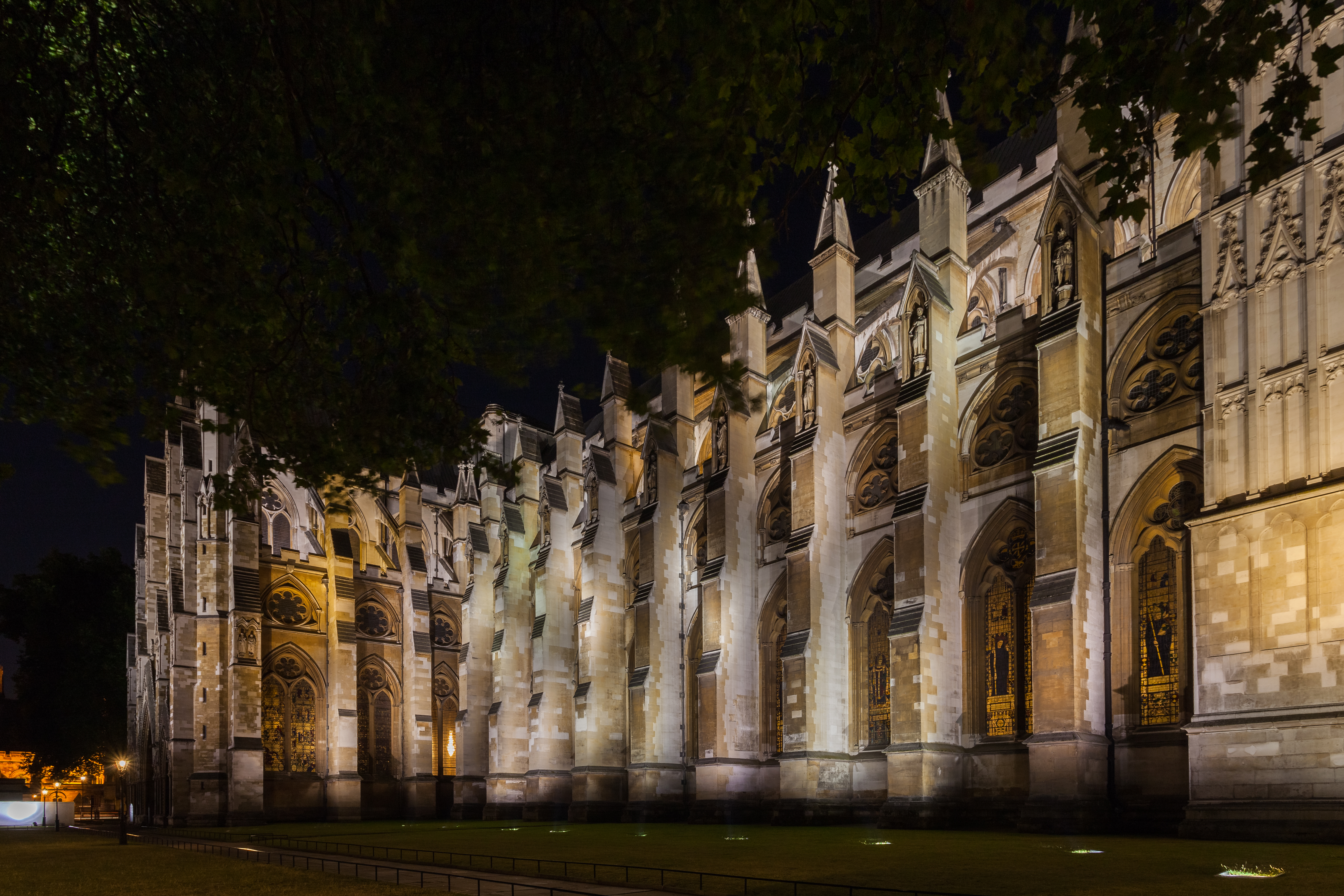 Westminster Abbey, London, England